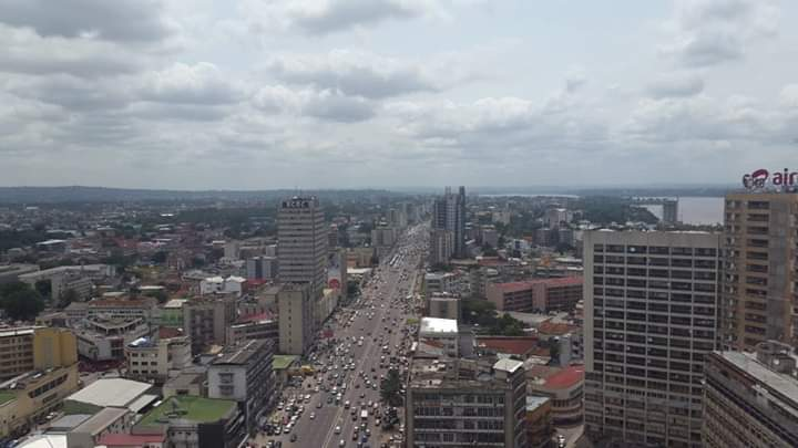 This is picture of Kinshasa's landscape taken in 2019 from Kempinski Hotel.